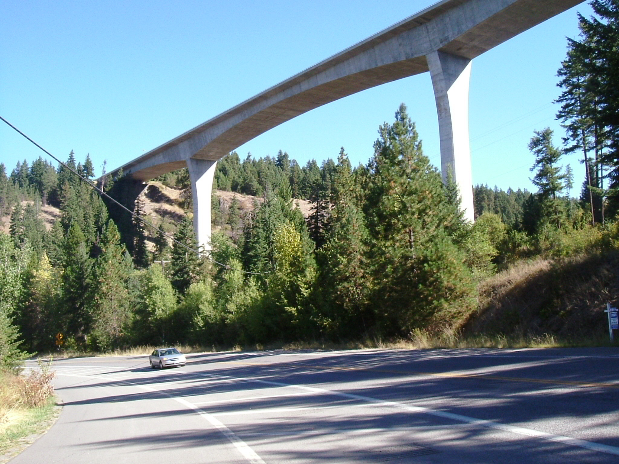 The Veterans Memorial Centennial Bridge, carrying a section of Interstate 90 near Lake Couer d' Alene in Idaho.